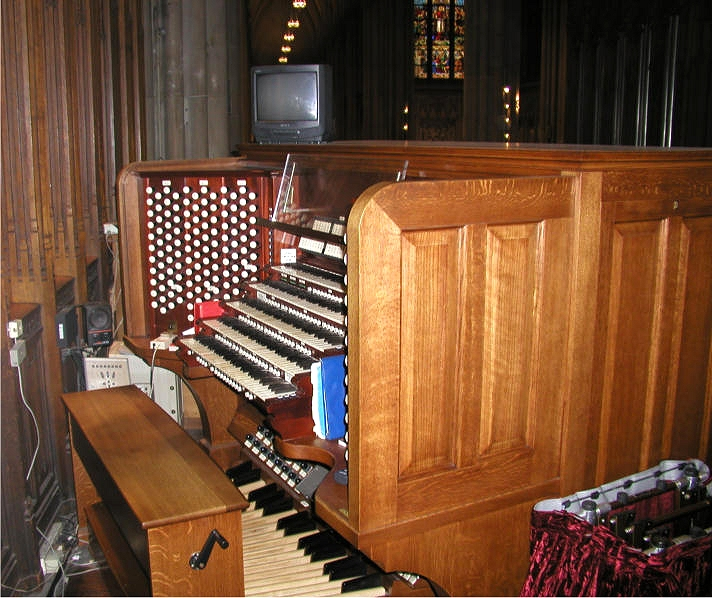 St Patricks Cathedral Chancel Console